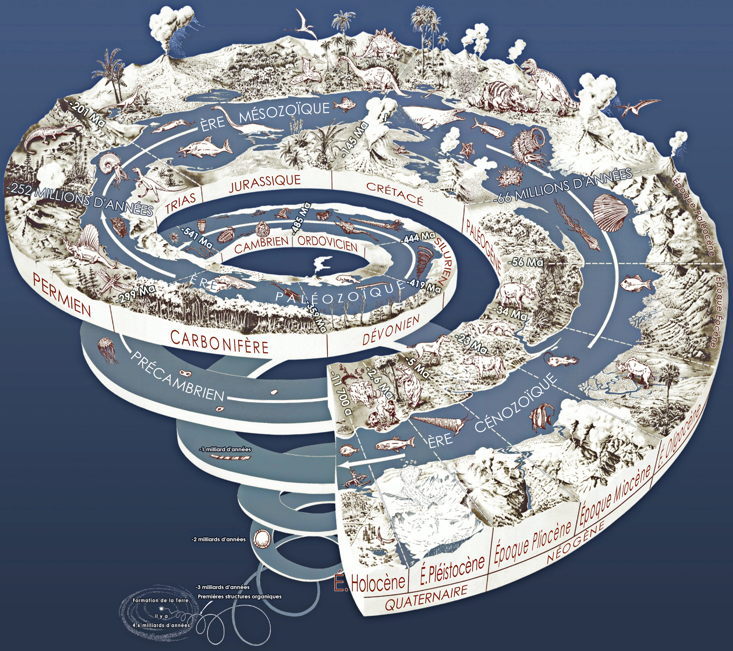 A diagram of the geological time scale